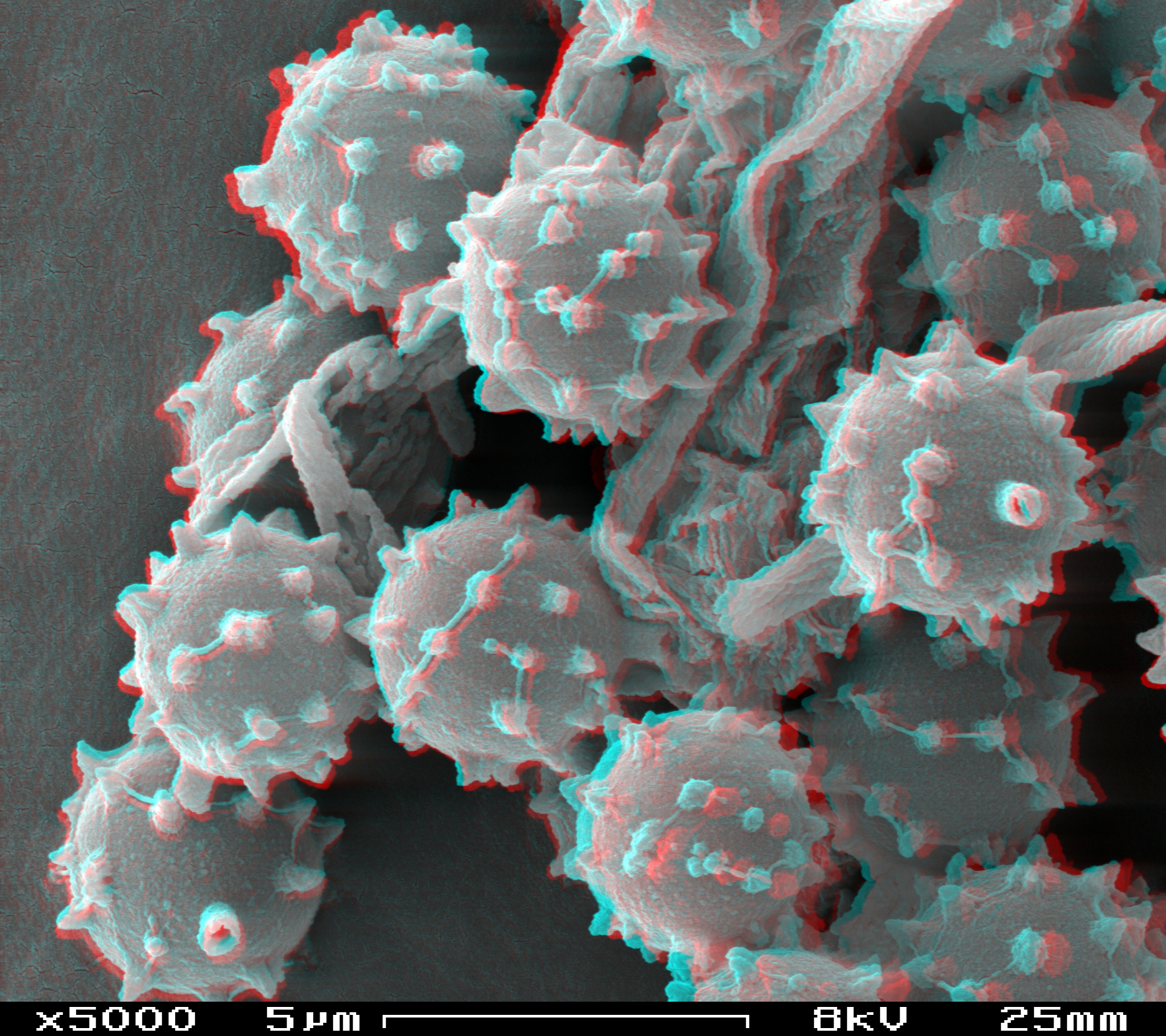 Puffball spores in SEM stereoscopic, magnification 5000x